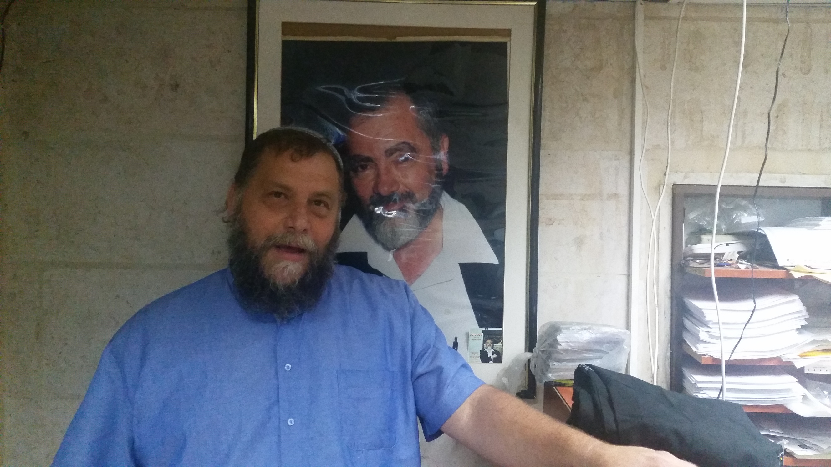 Ben-Zion Gopstein